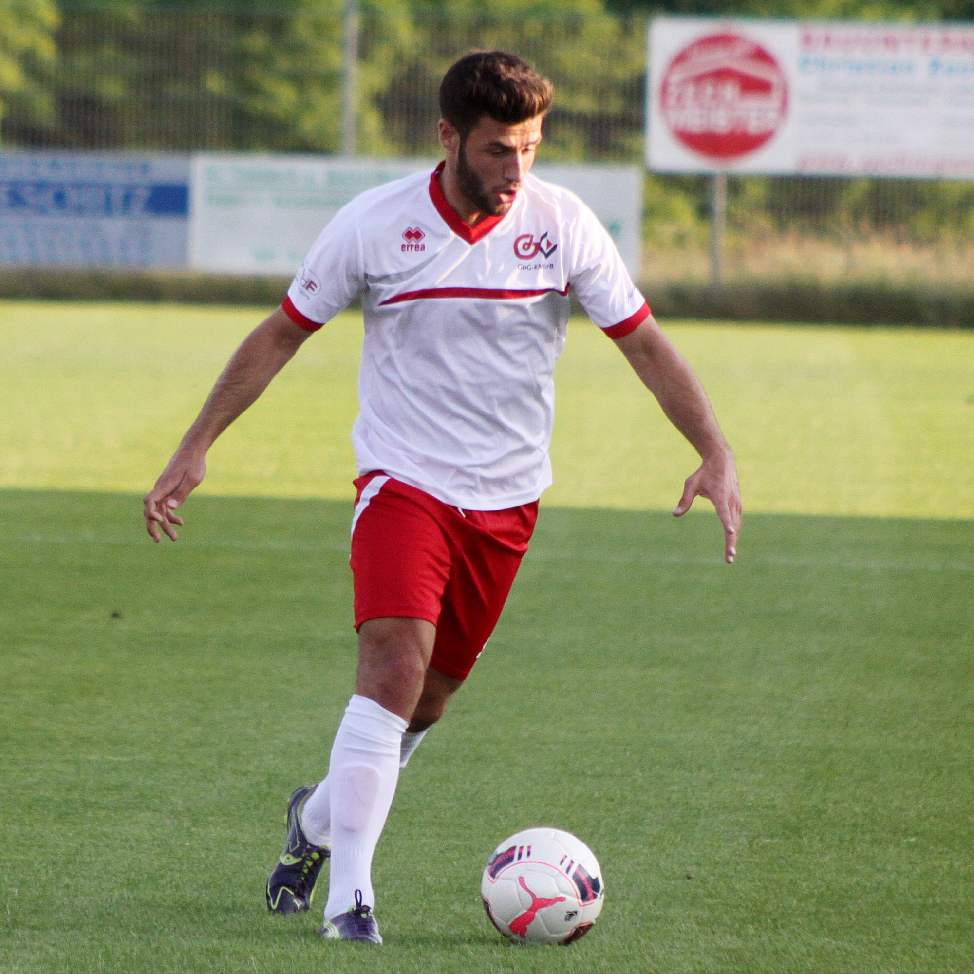 FIFPro Tournament 2015, Match Austria (white shirts) vs. Ukraine (red shirts), 26.06.2015 in Draßburg. – The photo shows Lumbardh Salihu.